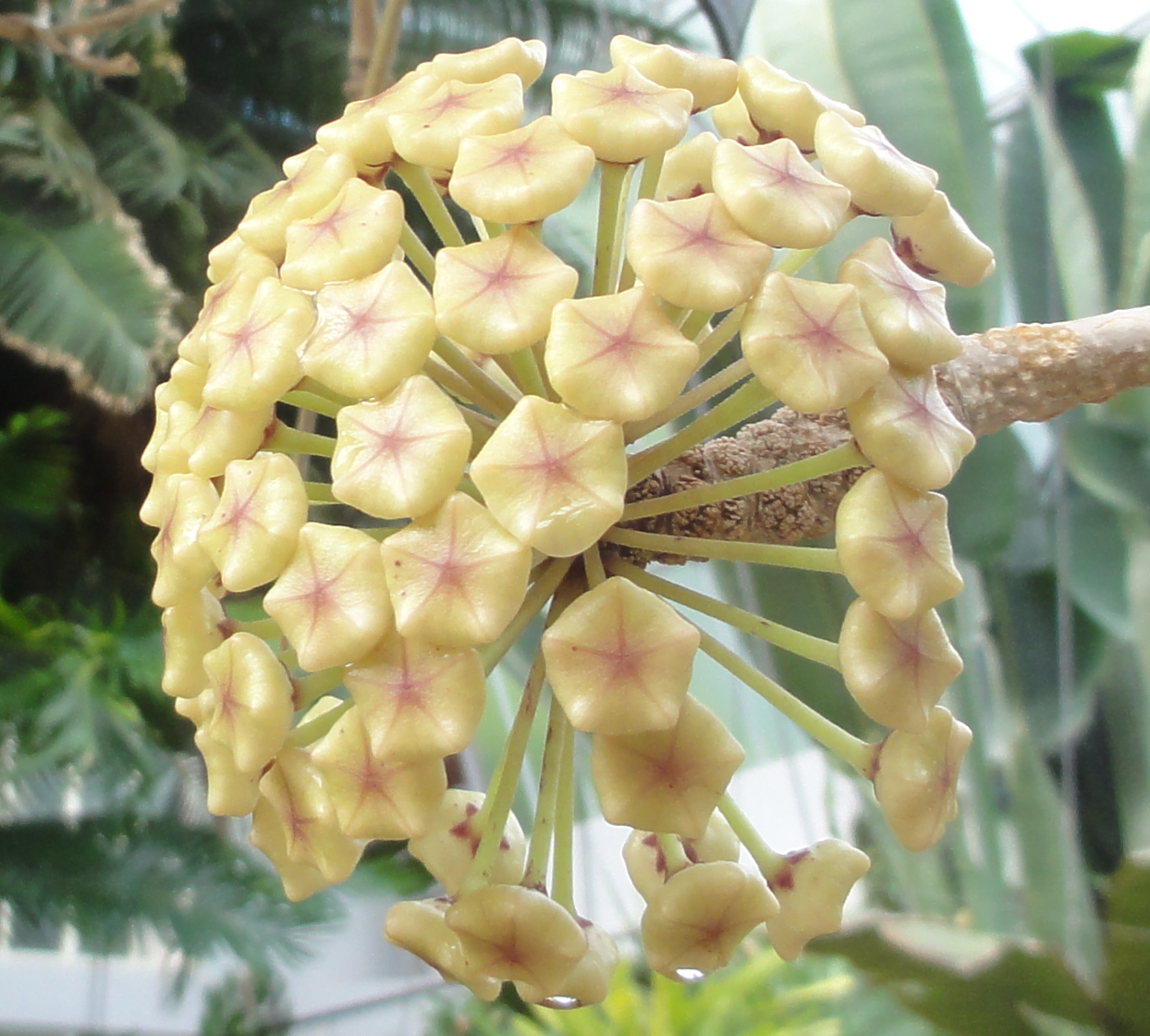 Hoya loyceandrewsiana, buds, Auckland Winter Garden